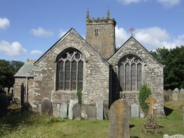 St. Pinnock church, east end, near to St Pinnock, Cornwall, Great Britain.